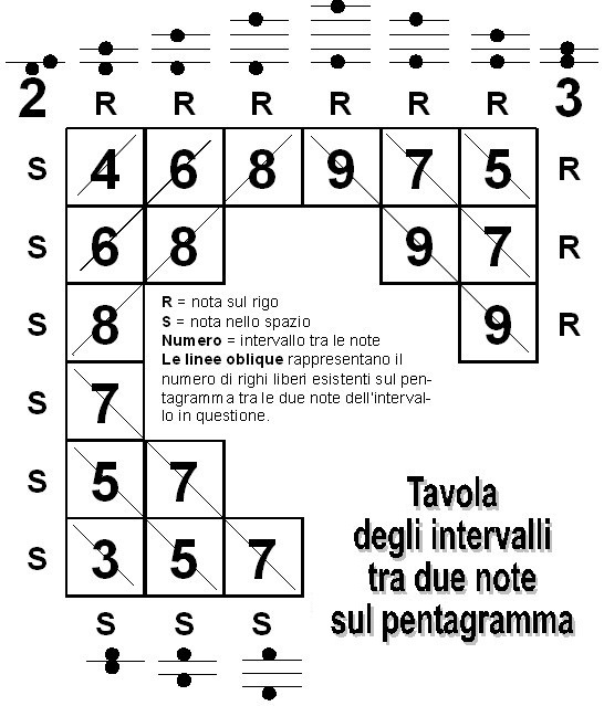 Table of the intervals between two notes on the staff, made by Mauro Pecchioli.